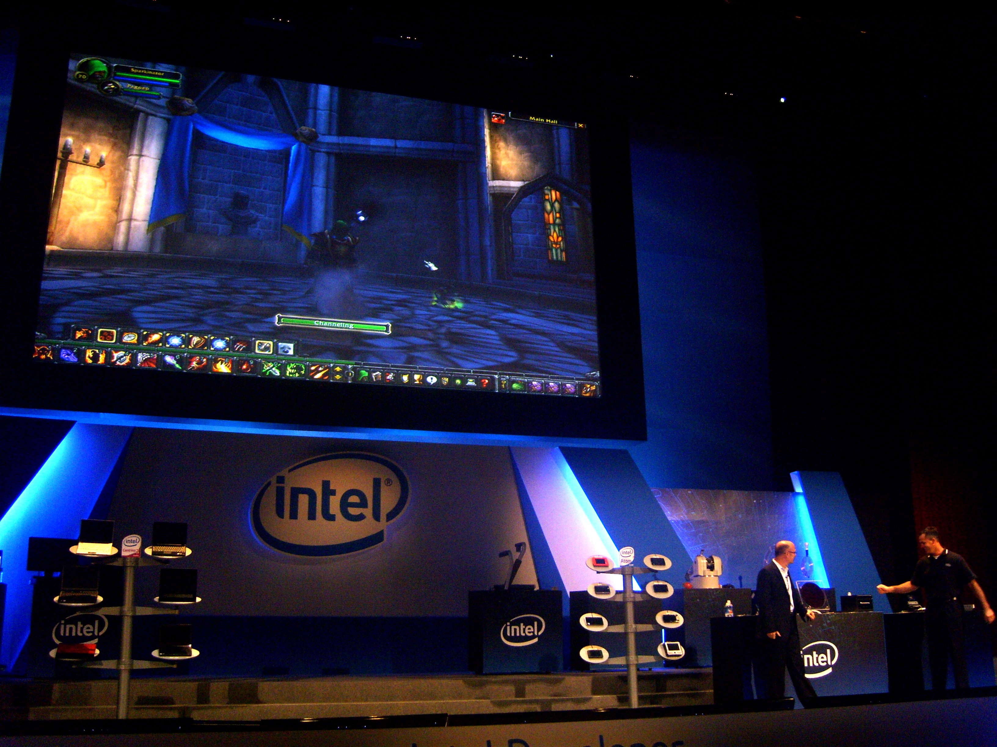 2008 Intel Developer Forum Taiwan: MID Keynote - Online Game Demonstration.